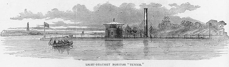 A slightly cropped image of the engraving of the USS Tunxis published in The Soldier in Our Civil War, Volume II, page 226